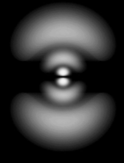 position probability distribution for atomic hydrogen (4p0). Looks like a projection, not a cross-section. Probability densities below a certain threshold were completely cut away.